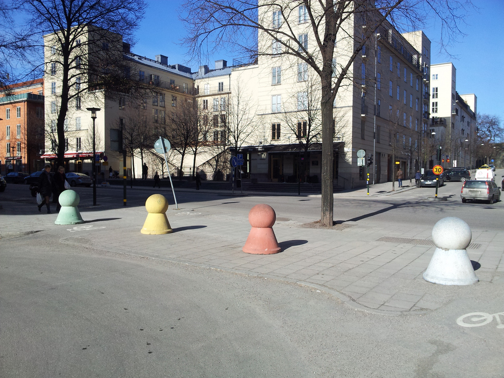 Traffic bollards shaped as Ludo pieces between Södra Agnegatan and Fleminggatan in Kungsholmen, Stockholm.